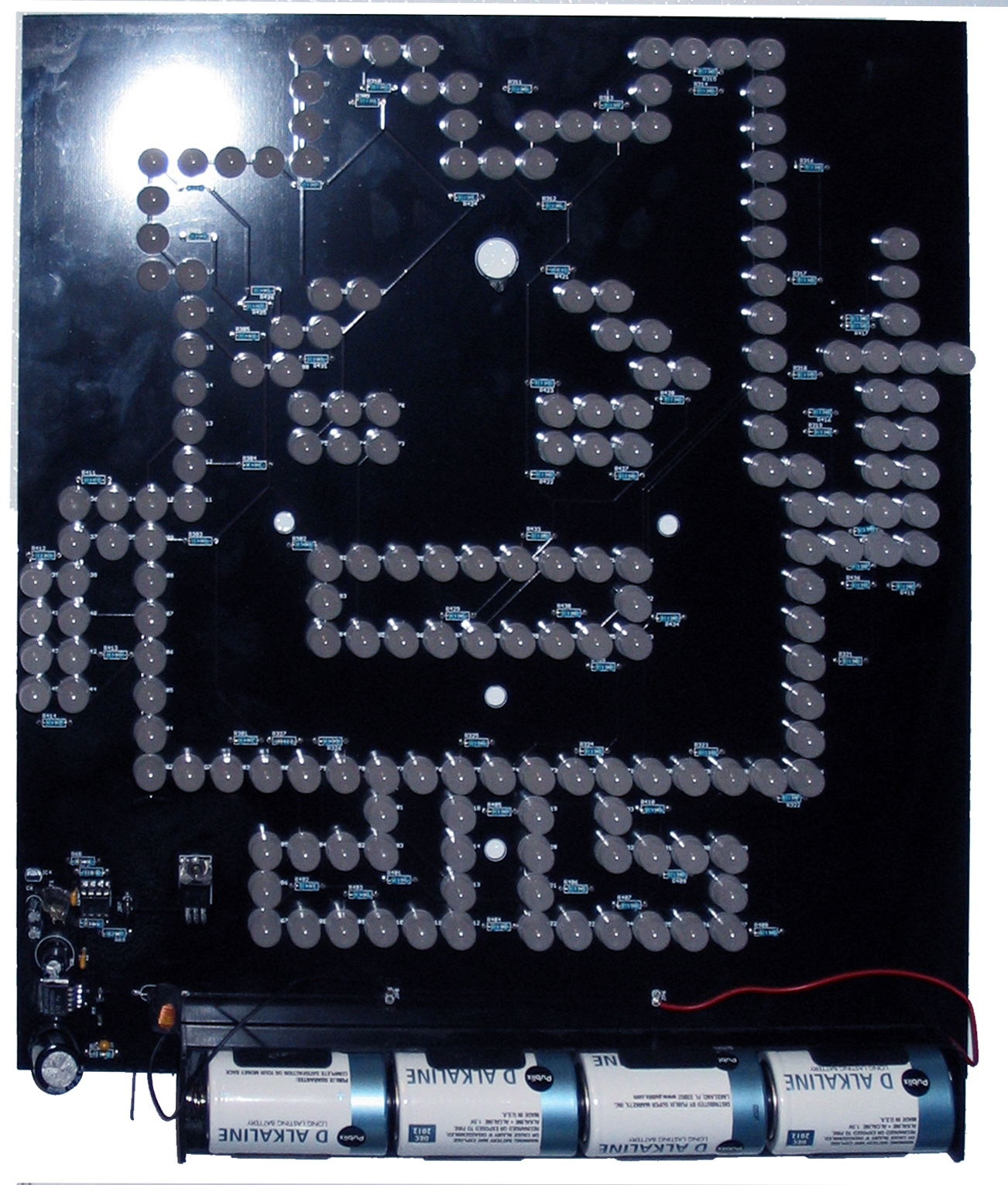 Aqua Teen Hunger Force promotional LED sign, identical signs were distributed by Interference Inc. to ten major American cities